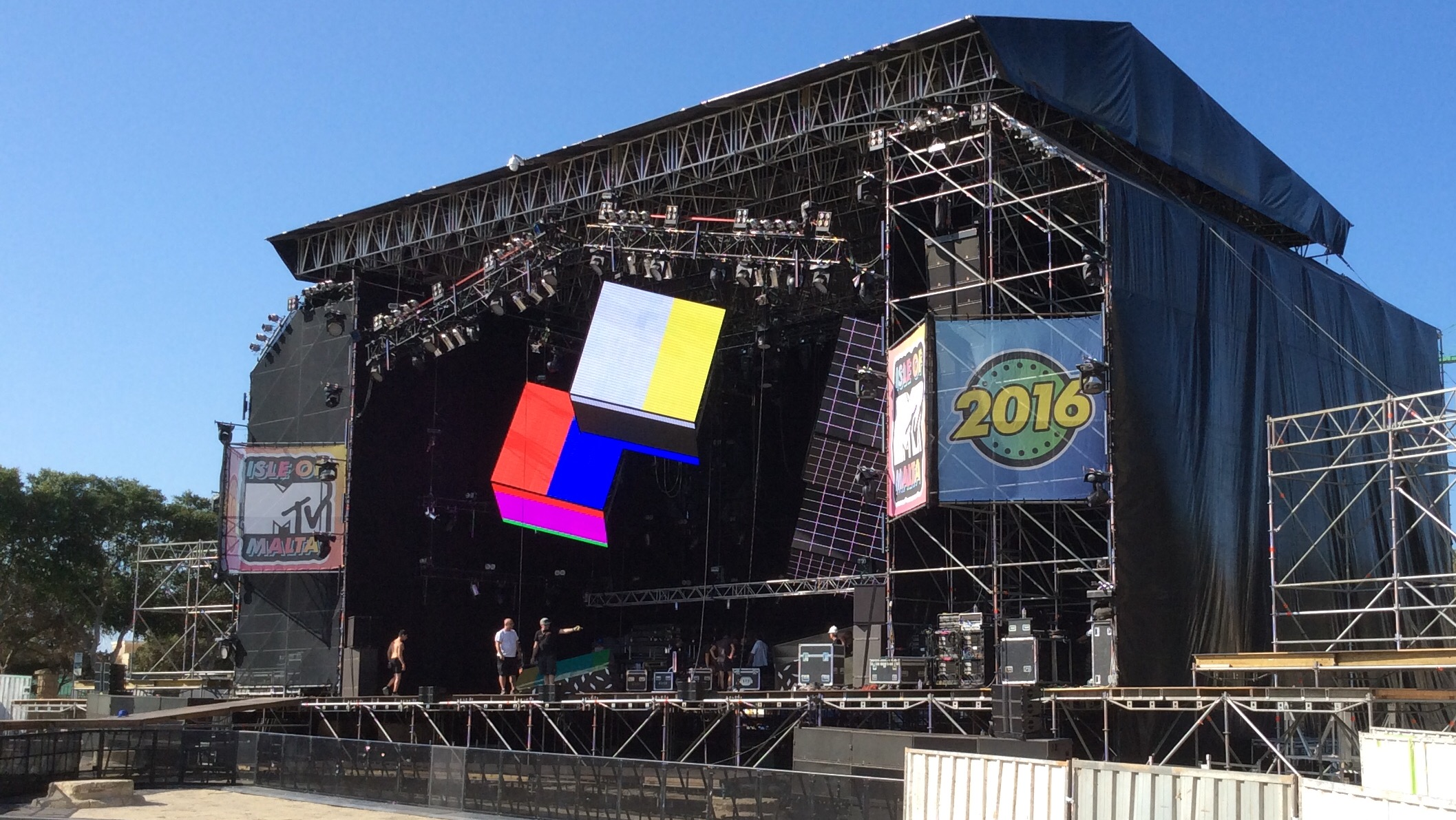 MTV parlk Malta